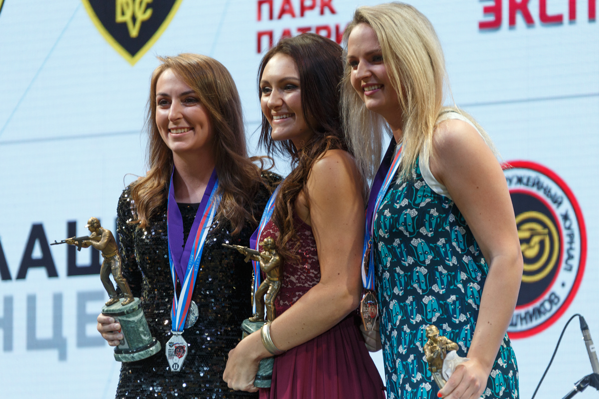 Lena Miculek wins Open Division Lady category at the 2017 IPSC Rifle World Shoot in front of Ashley Rheuark and Maria Gushchina